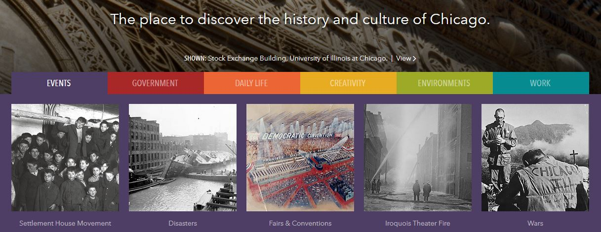 Sample of collections & images discoverable at Explore Chicago Collections